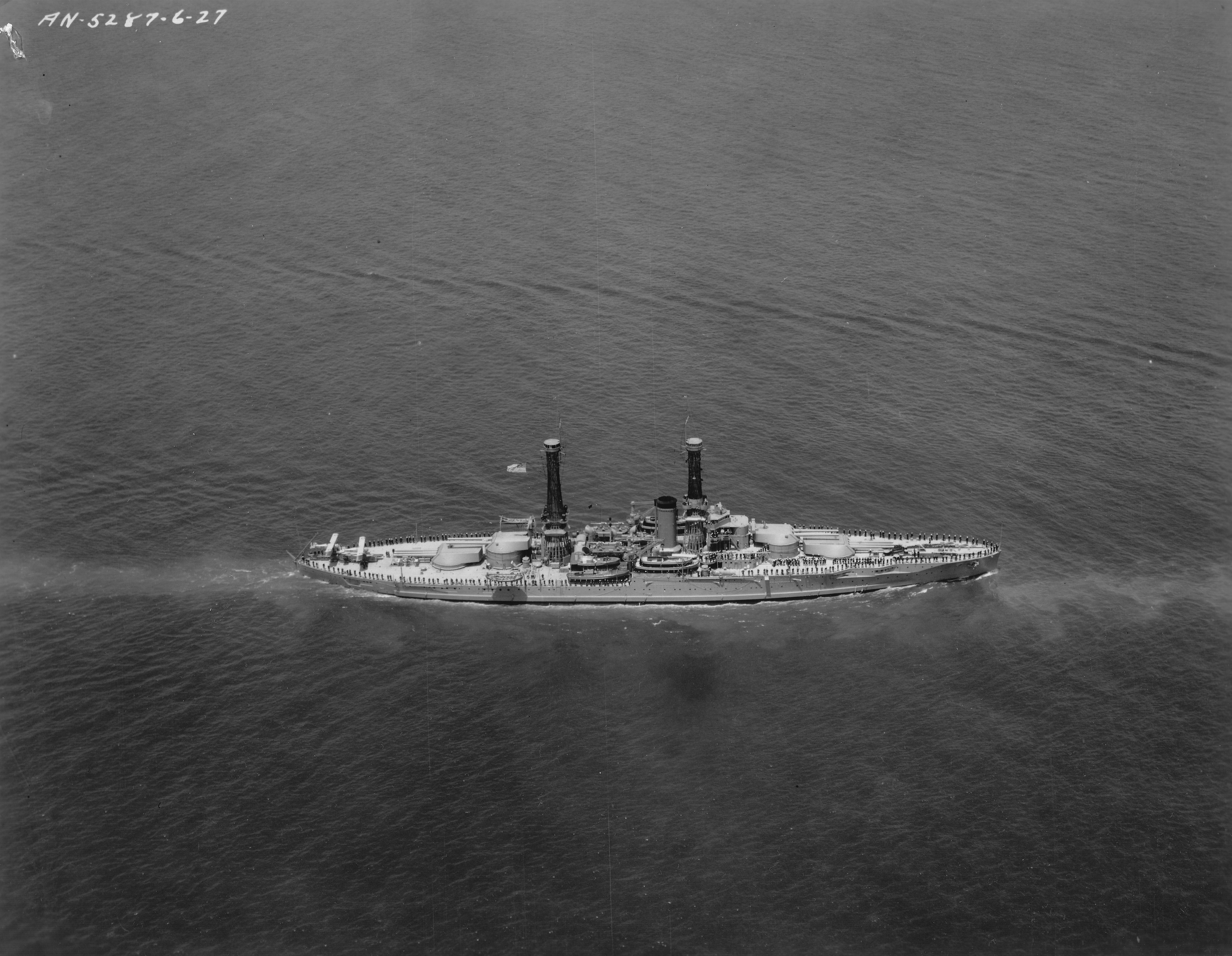 Aerial view of the USS Nevada during a presidential naval review in Hampton Roads, Virginia, June 4, 1927.